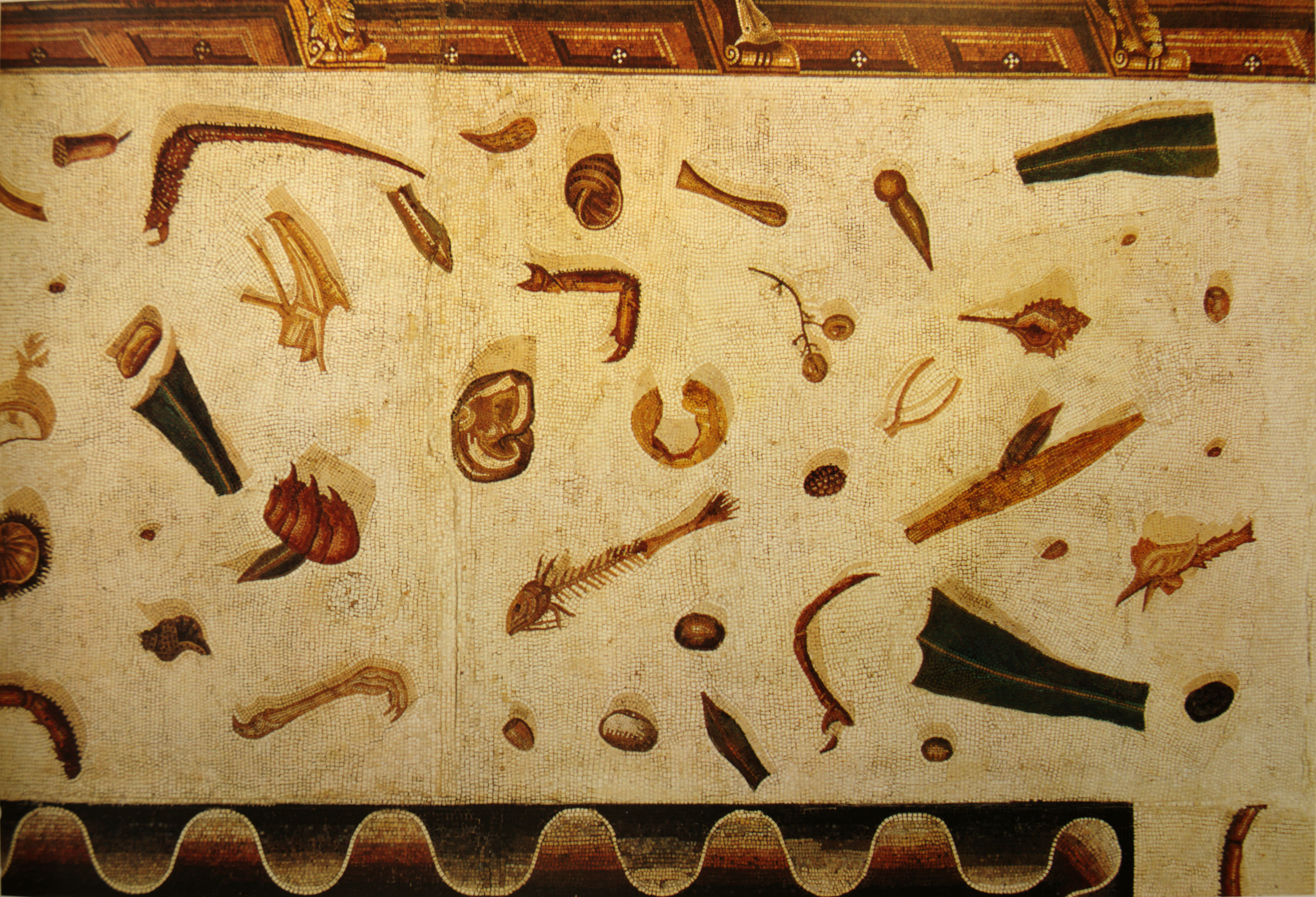 Banquet leftovers, or Unswept Floor, mosaic. Inspired by Sosus of Pergamon, Museum Gregoriano Profano, Vatican. 4.05 x 0.41 m.